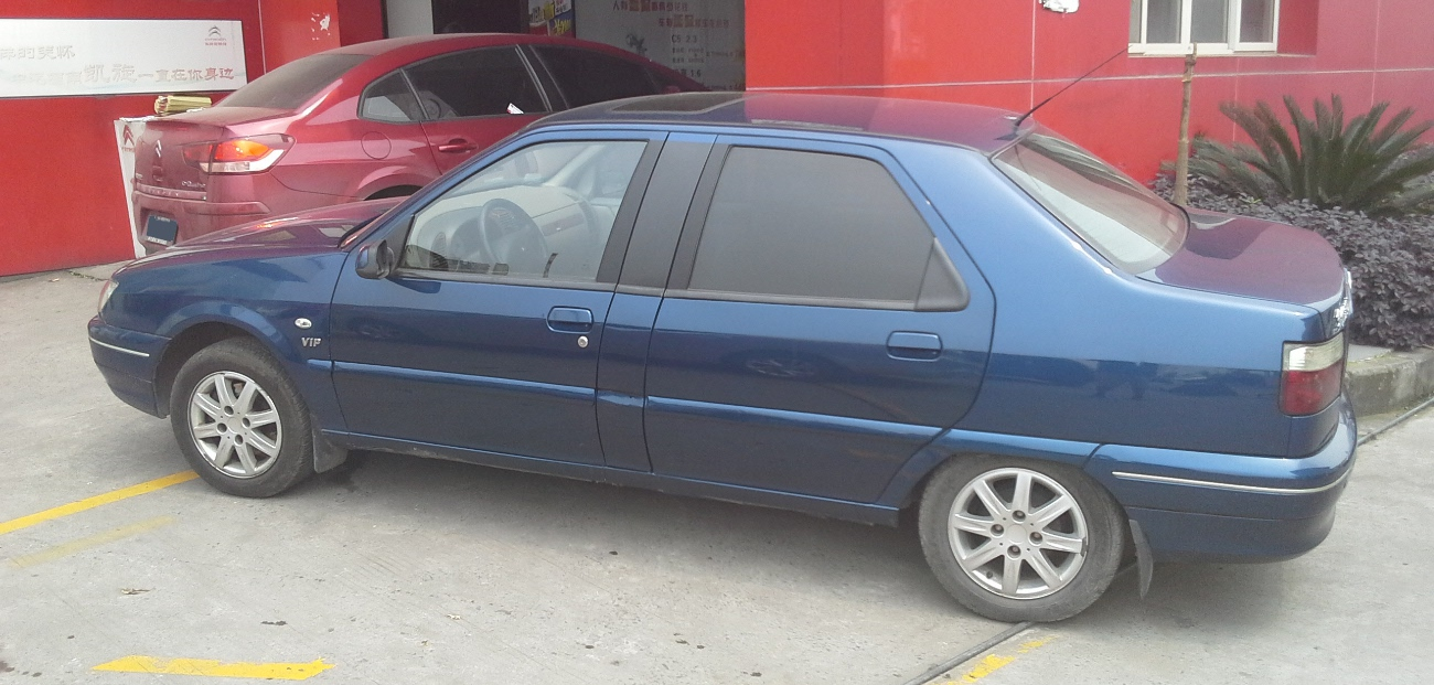 Citroën Elysée VIP photographed in Chongqing, China.